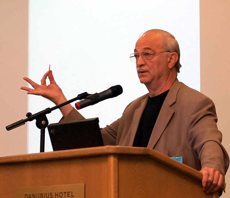 Joe Nickell at the 14th European Skeptics Congress in Budapest